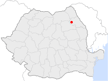 Location of Pașcani in Romania.